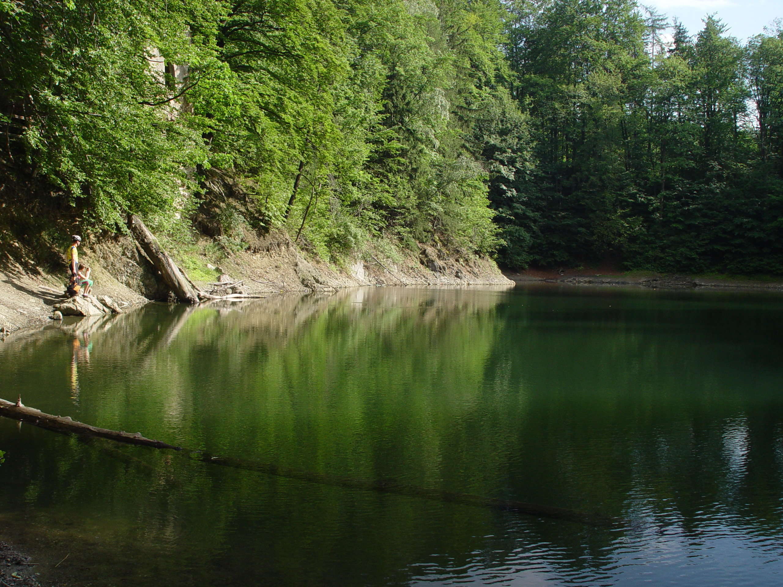 Daisy Lake, Poland, Lower Silesian Voivodship